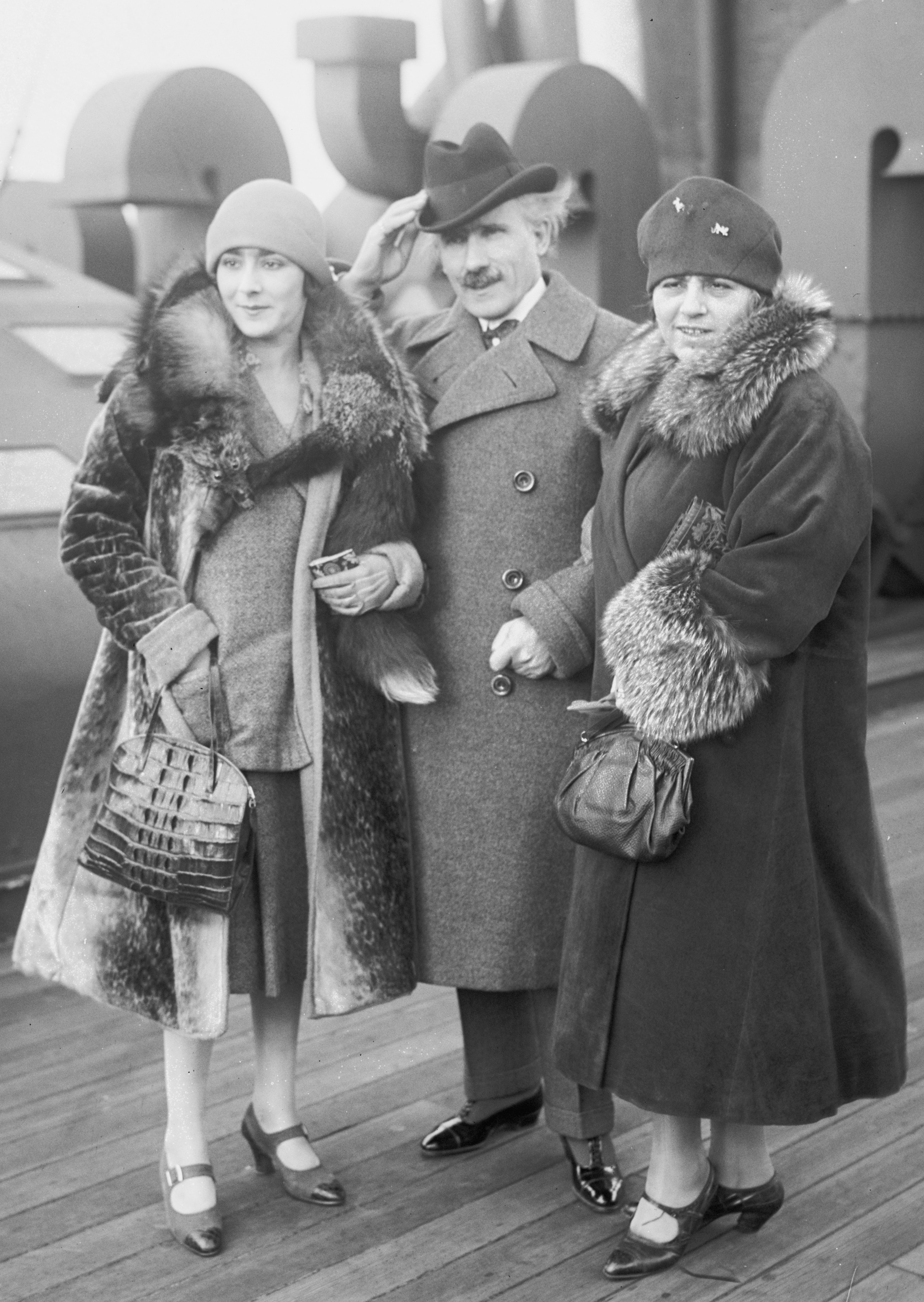 Toscanini with his wife and an unidentified woman.